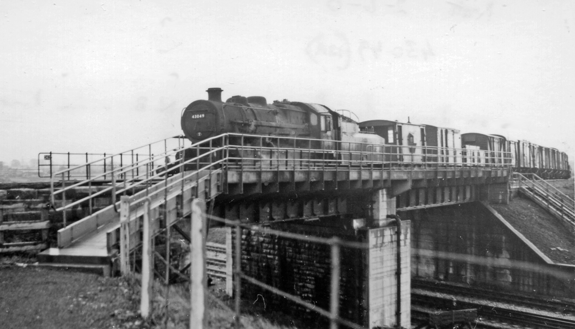 Down freight on Waverley Route crossing WCML at Kingmoor, Carlisle. View southward, towards Carlisle Citadel etc. Headed by LMS Ivatt 4MT 2-6-0 No. 43049 (built 12/49, withdrawn 8/67), the freight has come out through Canal Junction in Carlisle and is crossing the main lines of the former Caledonian Railway out of Carlisle used by trains to Glasgow etc. The great New Kingmoor Marshalling Yard (opened in 1963) begins immediately to the right.